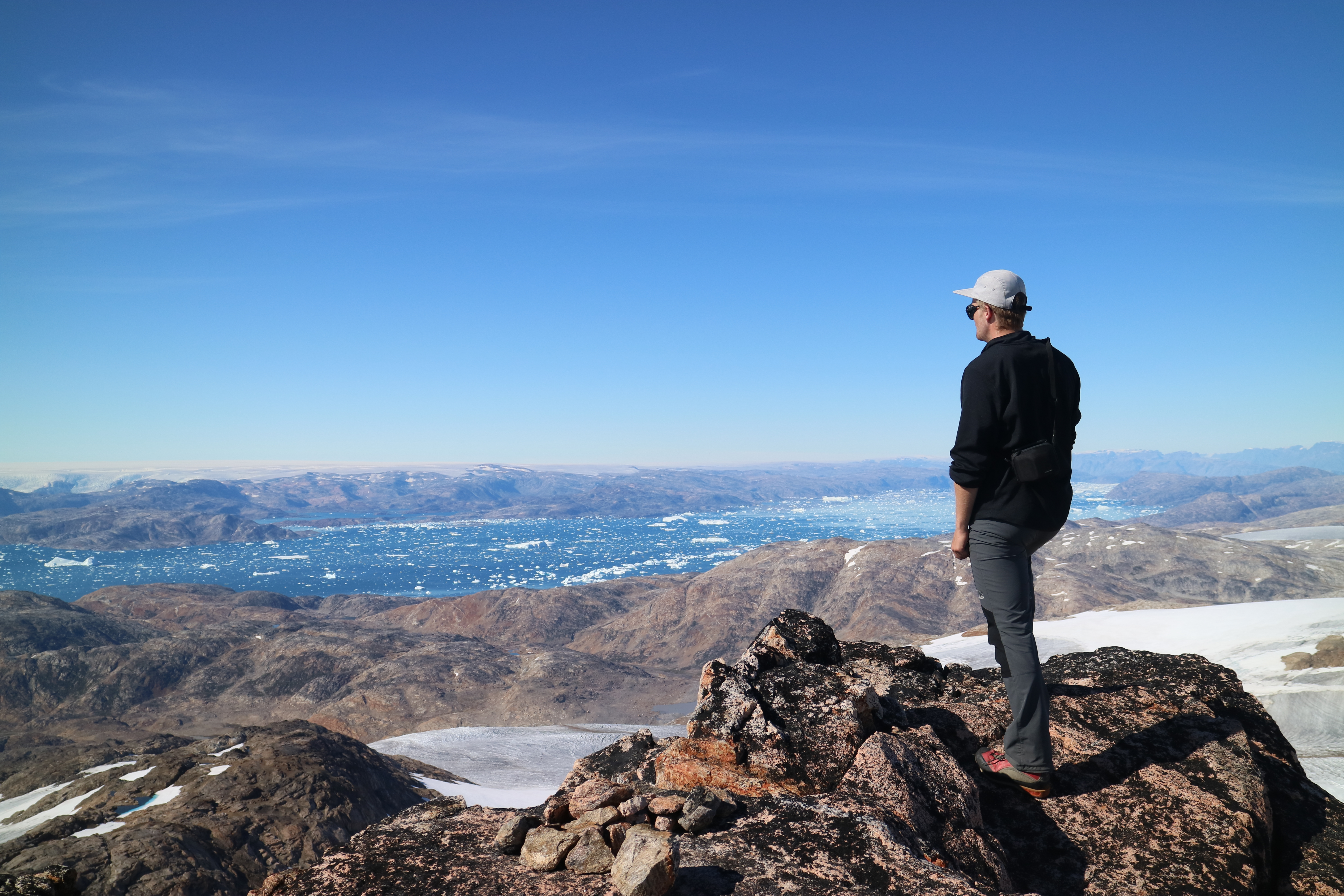 View from Mittivakkat over Sermilik fjord to the Greenlandic icesheet